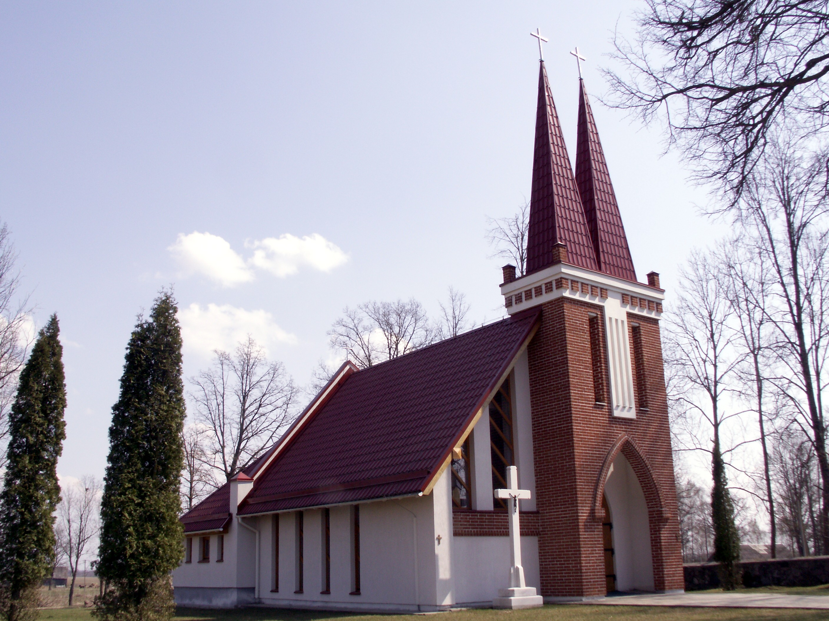 Suostas church, Biržai district, Lithuania